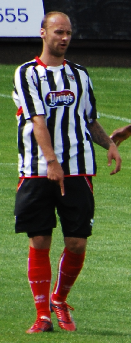 Steven Watt. Image cropped from original at flickr.